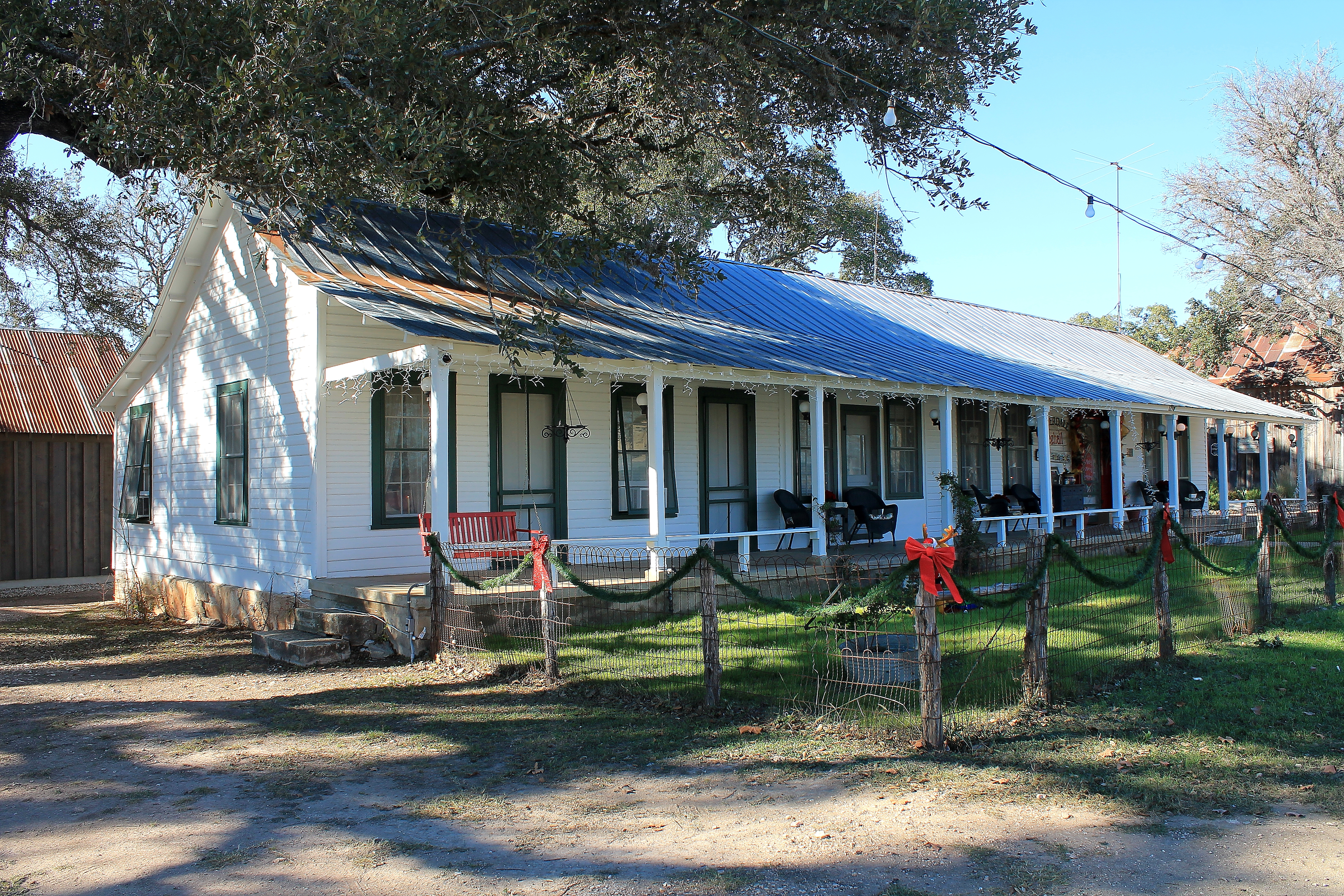 Sisterdale Bed and Breakfast